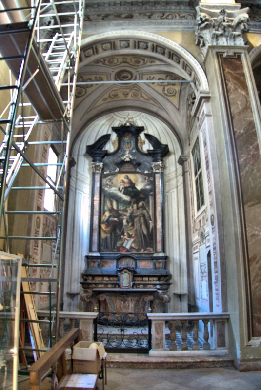 Chapel of St. Bonaventure